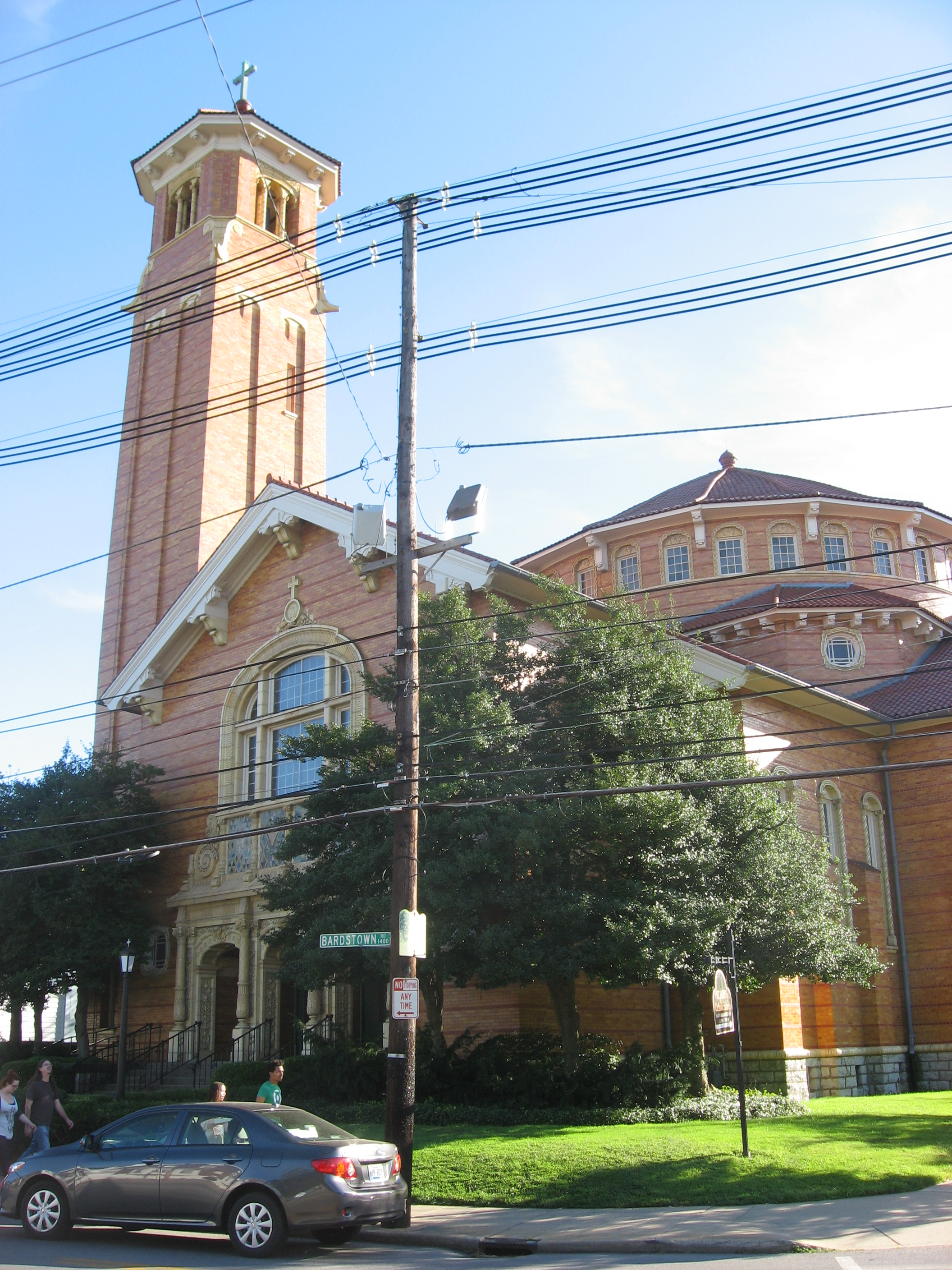 Front of St. James' Catholic Church, located at 1430 Bardstown Road (U.S. Routes 31/150) in Louisville, Kentucky, United States. Built in 1913, it is listed on the National Register of Historic Places.